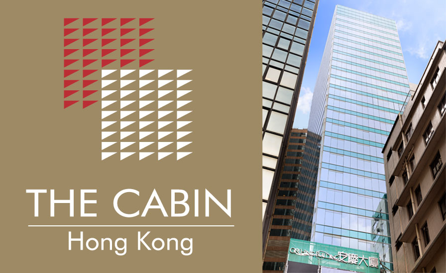 The Cabin Hong Kong, Asia's First Dayhab